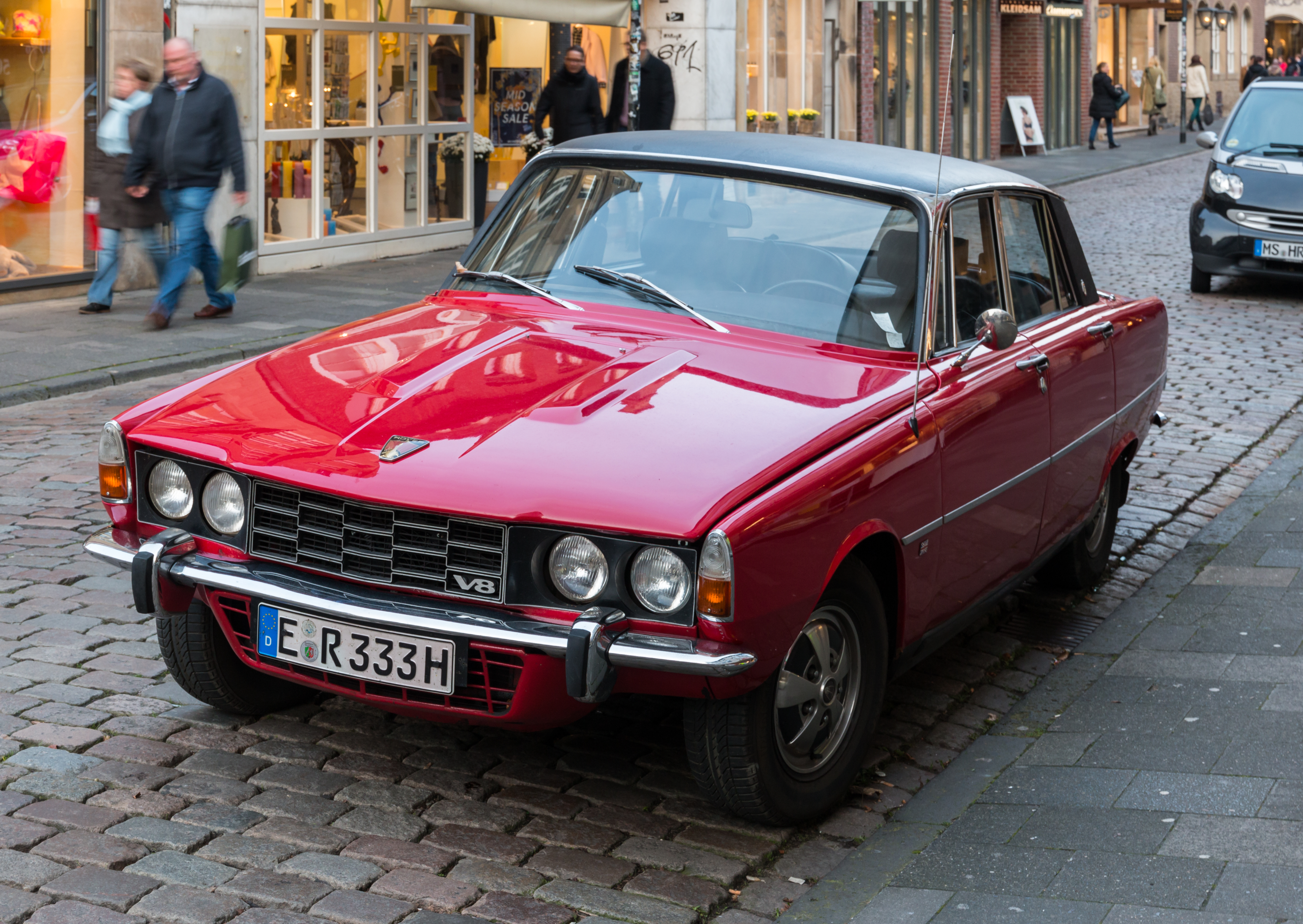 Rover 3500 V8 series P6 at the Roggenmarkt, Münster, North Rhine-Westphalia, Germany